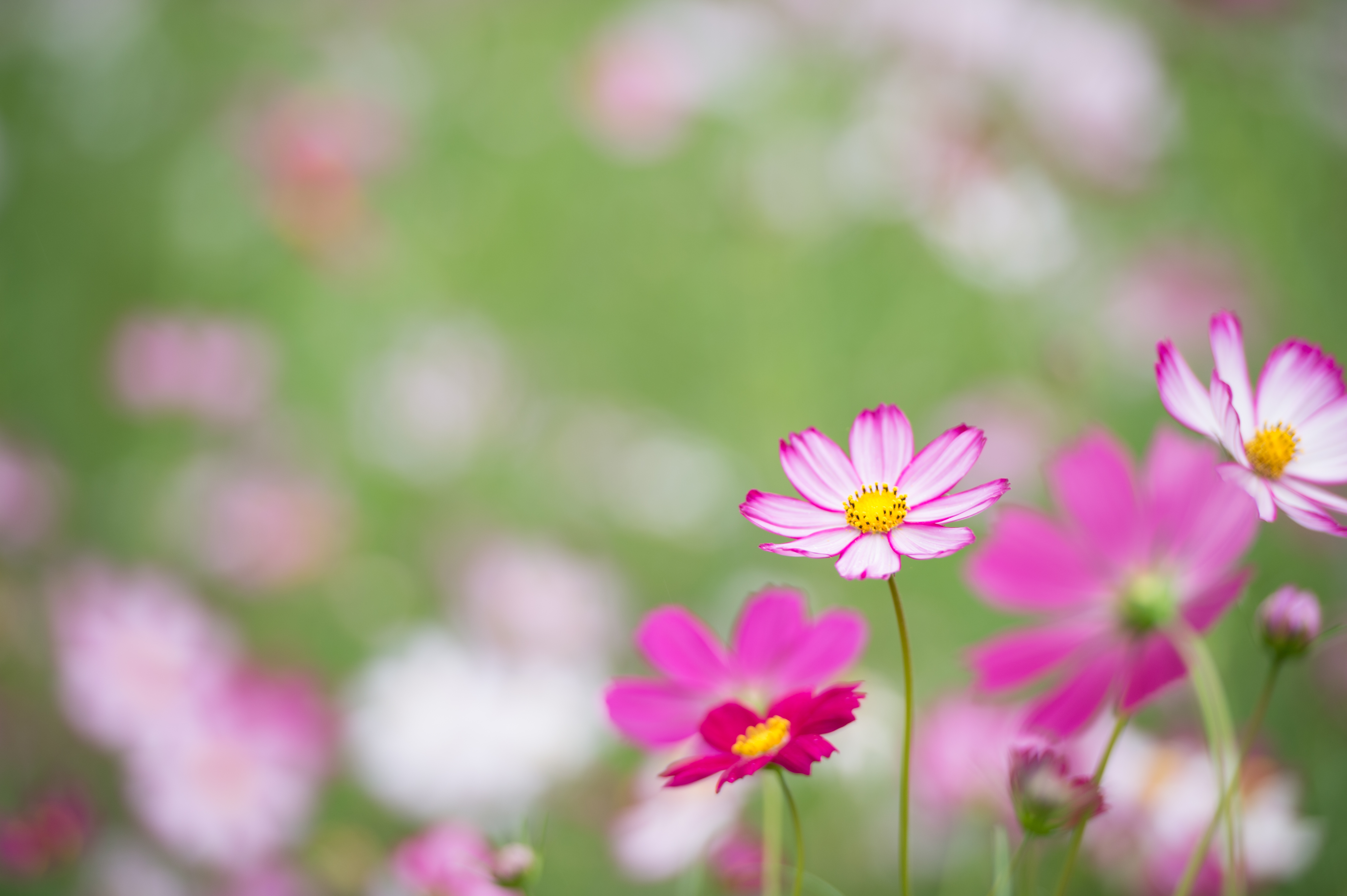 Photographed at Showa Kinen Park. 昭和記念公園で撮影しました。 [ Nikon D4, Nikon AF-S NIKKOR 70-200mm f/2.8G ED VR II, 200mm, f/2.8, 1/80sec, ISO200 ]